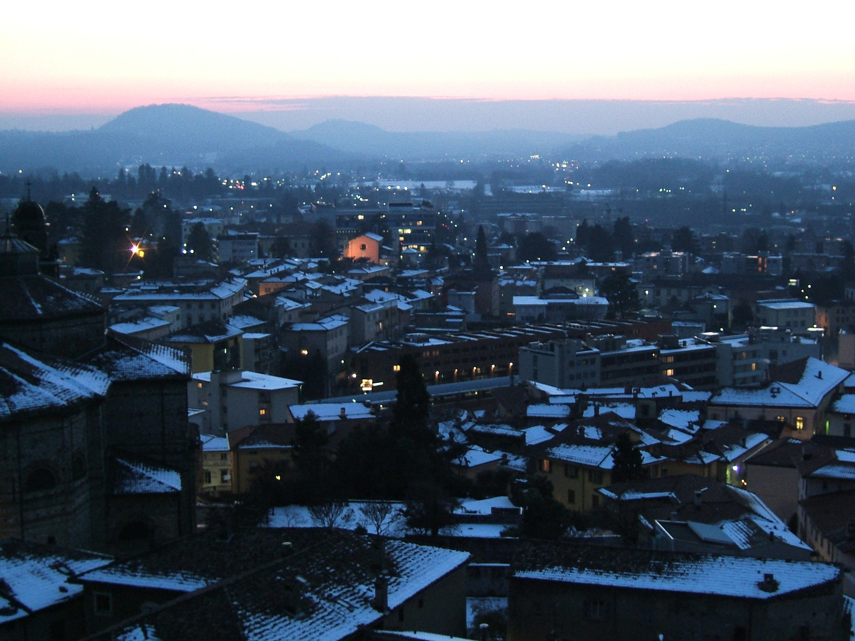 Looking over the roofs of Mendrisio, Switzerland on january 6th 2006.